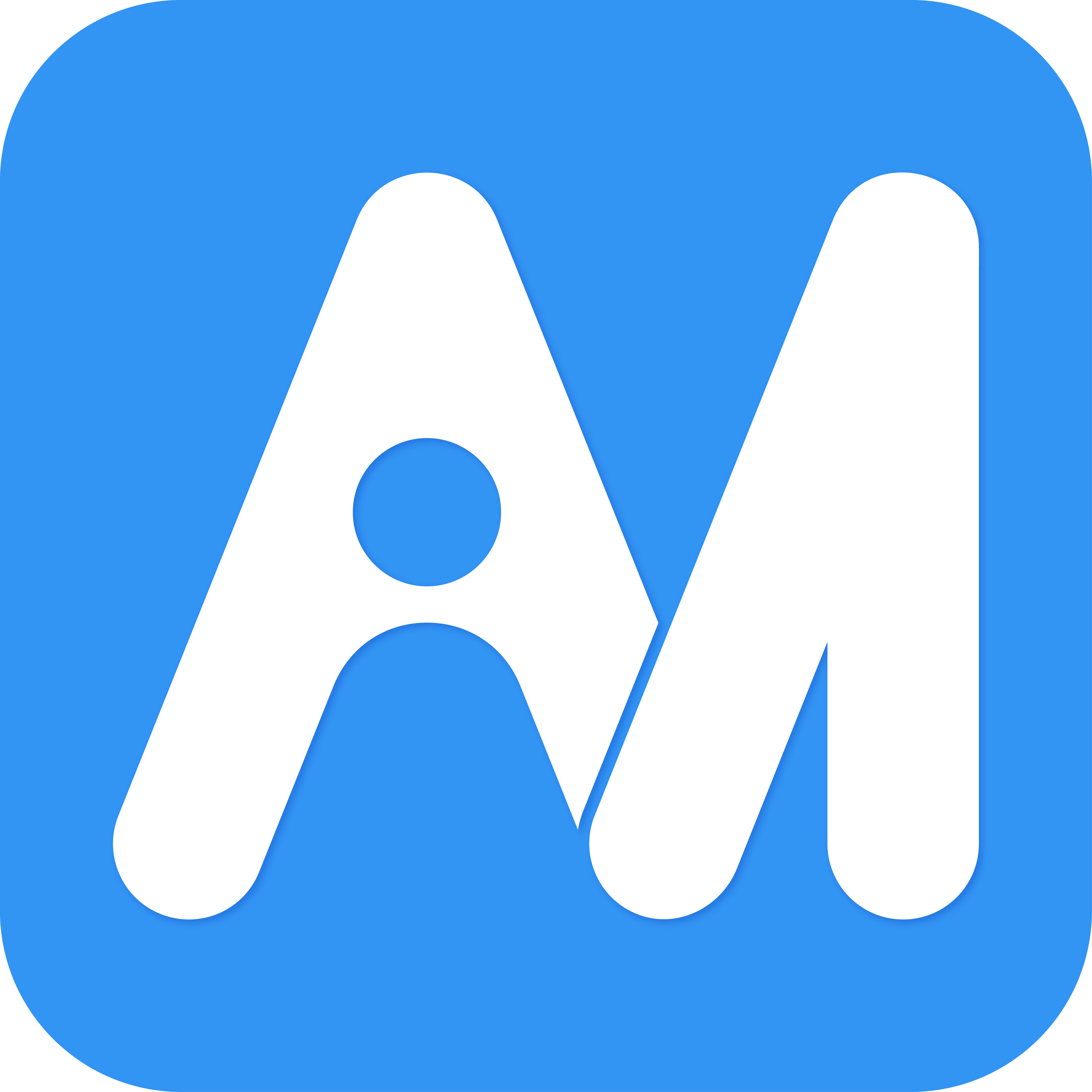 Logo of Amikumu.